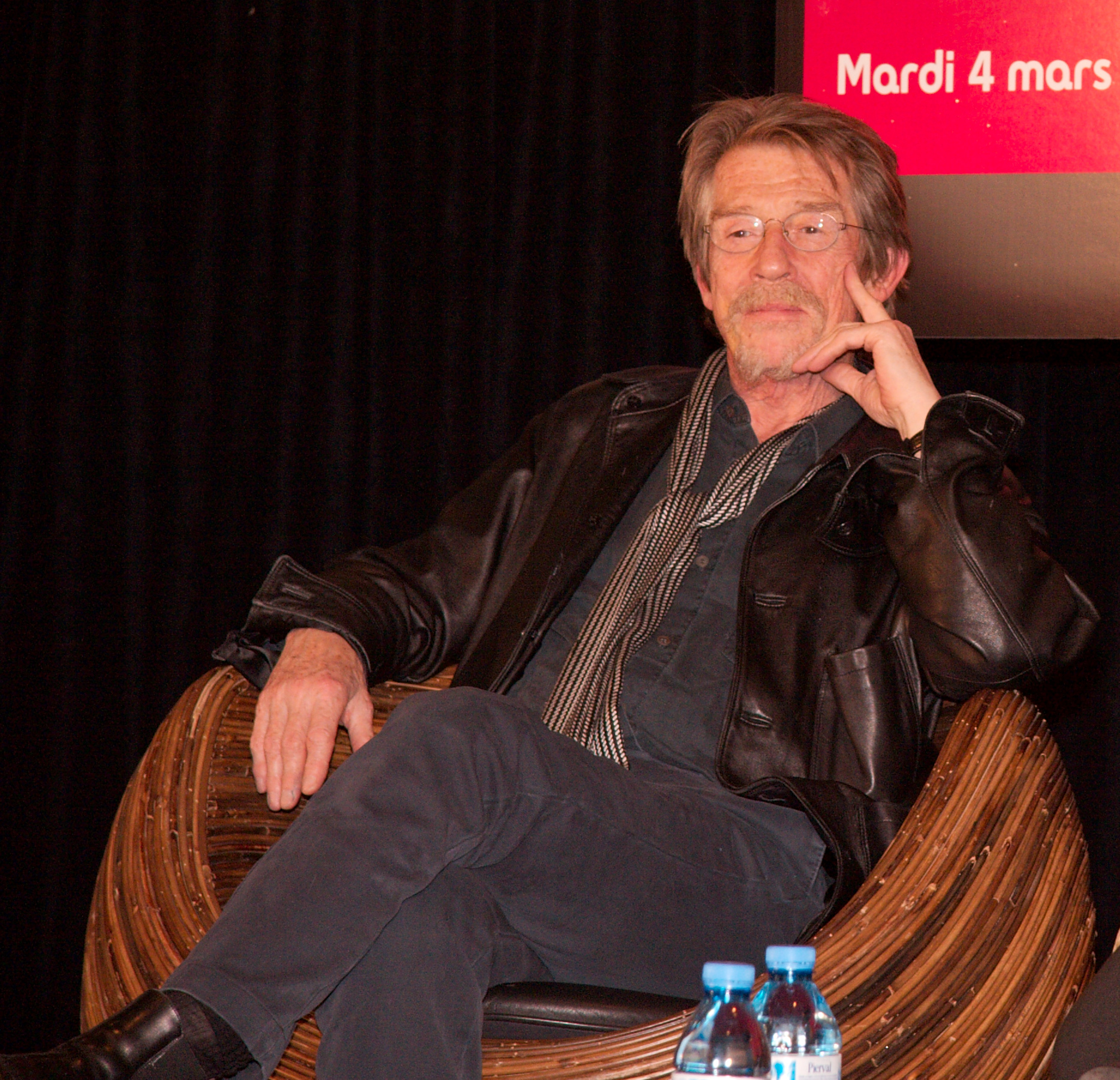 Rendezvous with John Hurt at Fnac des Ternes (Paris, France).